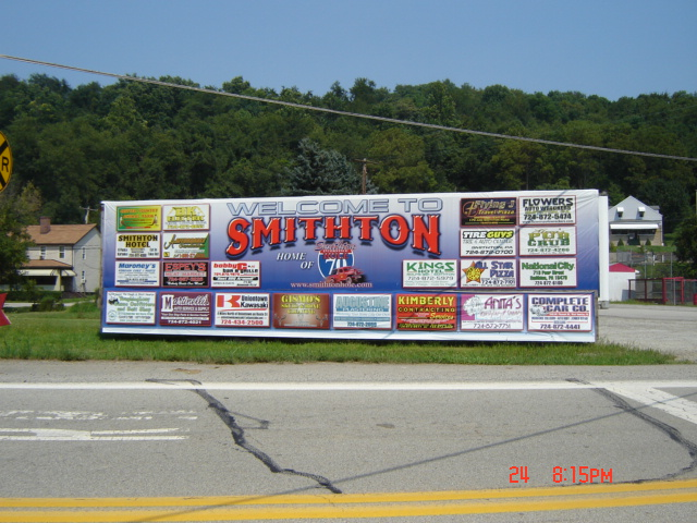 I created the image on a trip to Smithton in the summer of 2007.